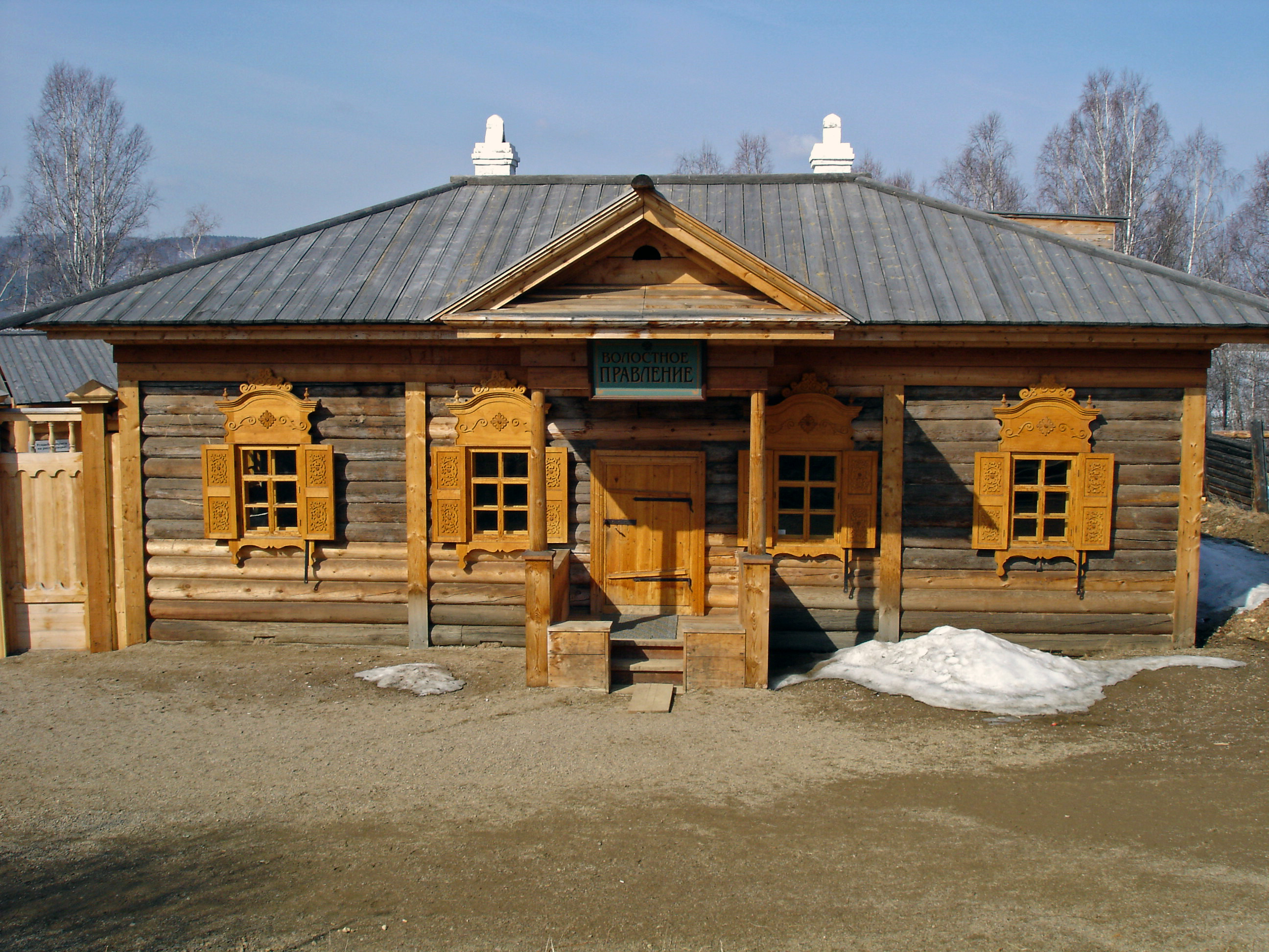 Open Air Museum Talzy close to Lake Baikal